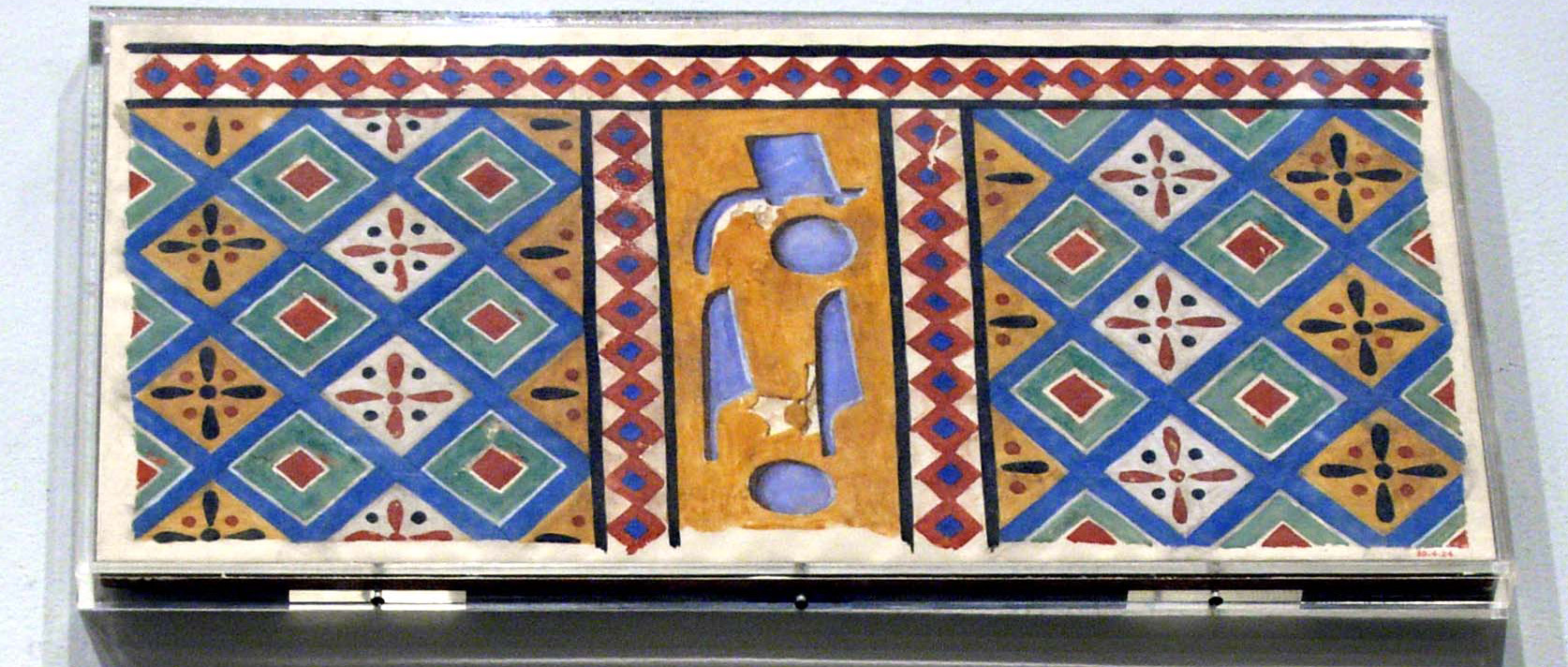 Facsimile, Amenemhat Surer (TT 48), ceiling (enhanced)